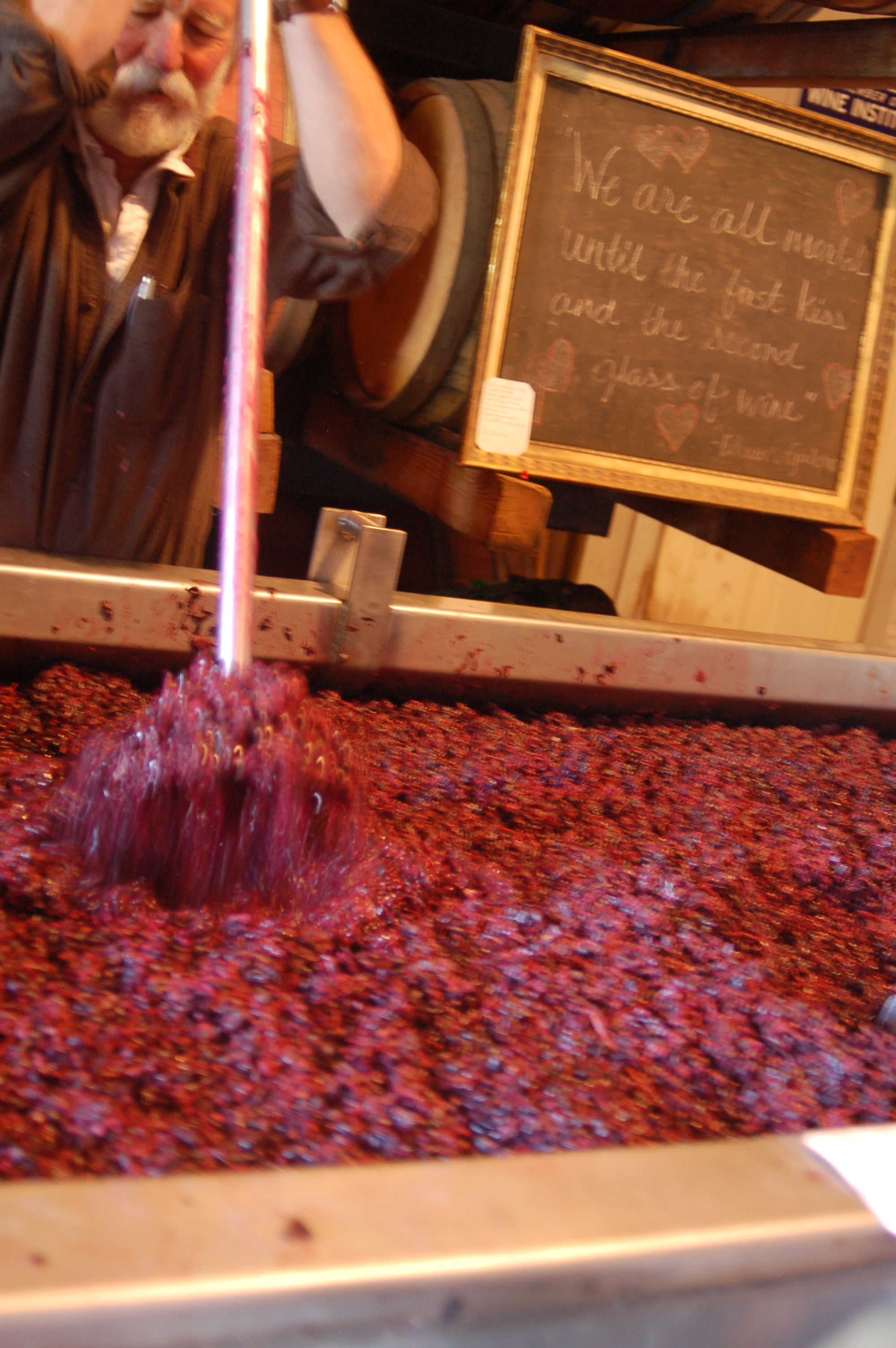 A winery worker pushing down the cap of red grape skins as wine ferment in order to encourage the maceration of color, flavor and aroma compounds.